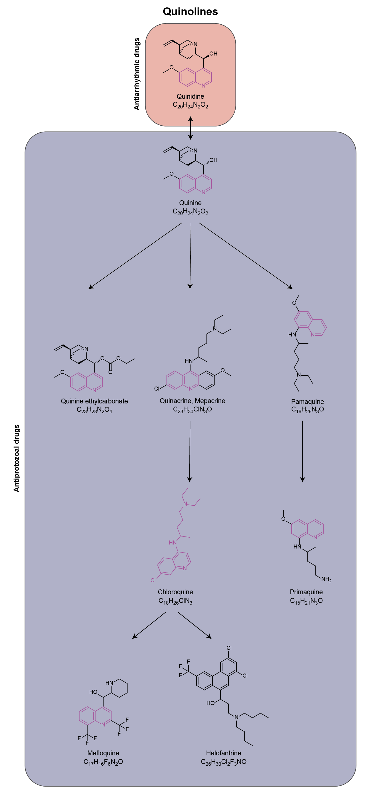 Medical quinolines pathway.